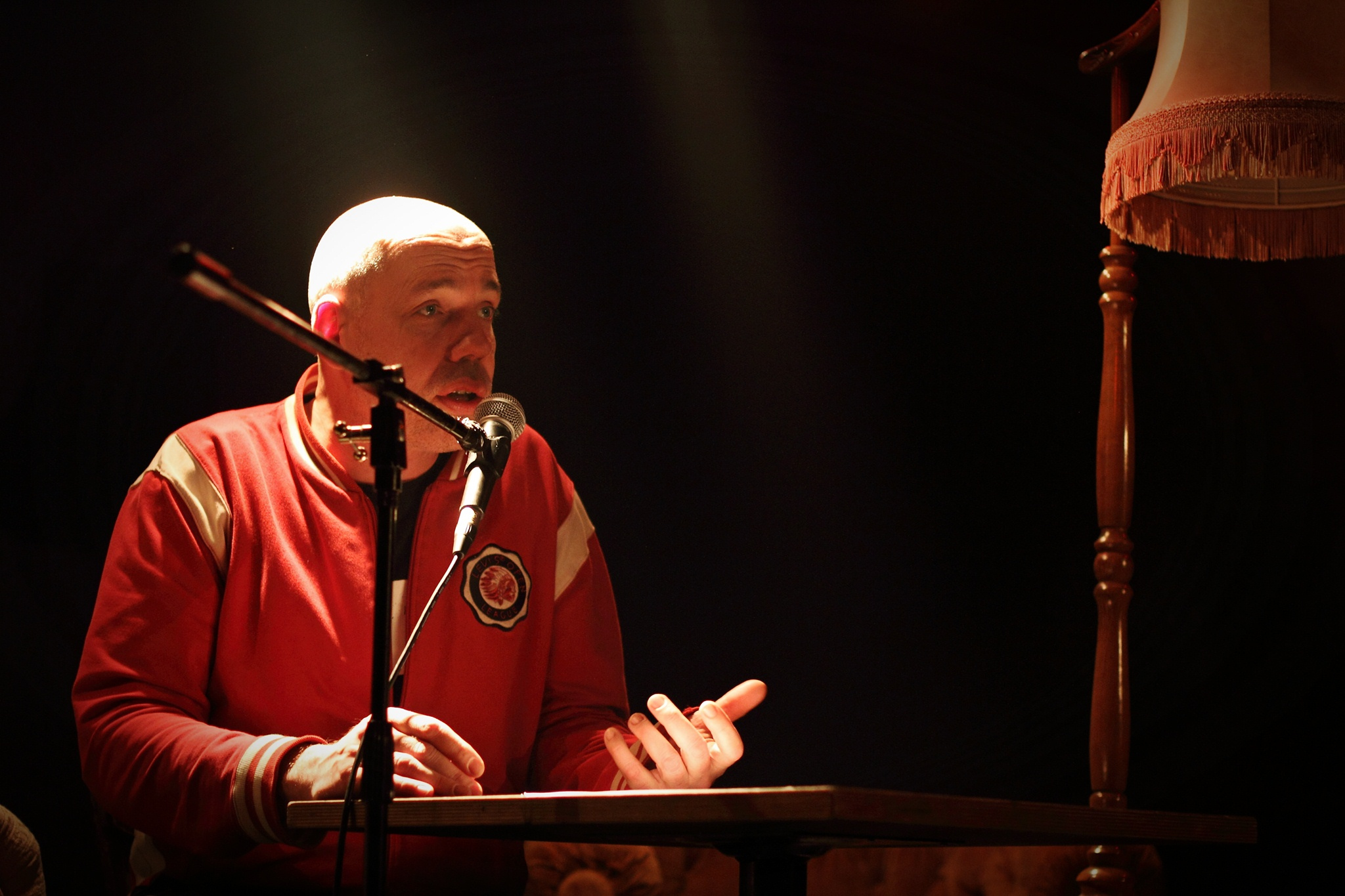 Jan Off